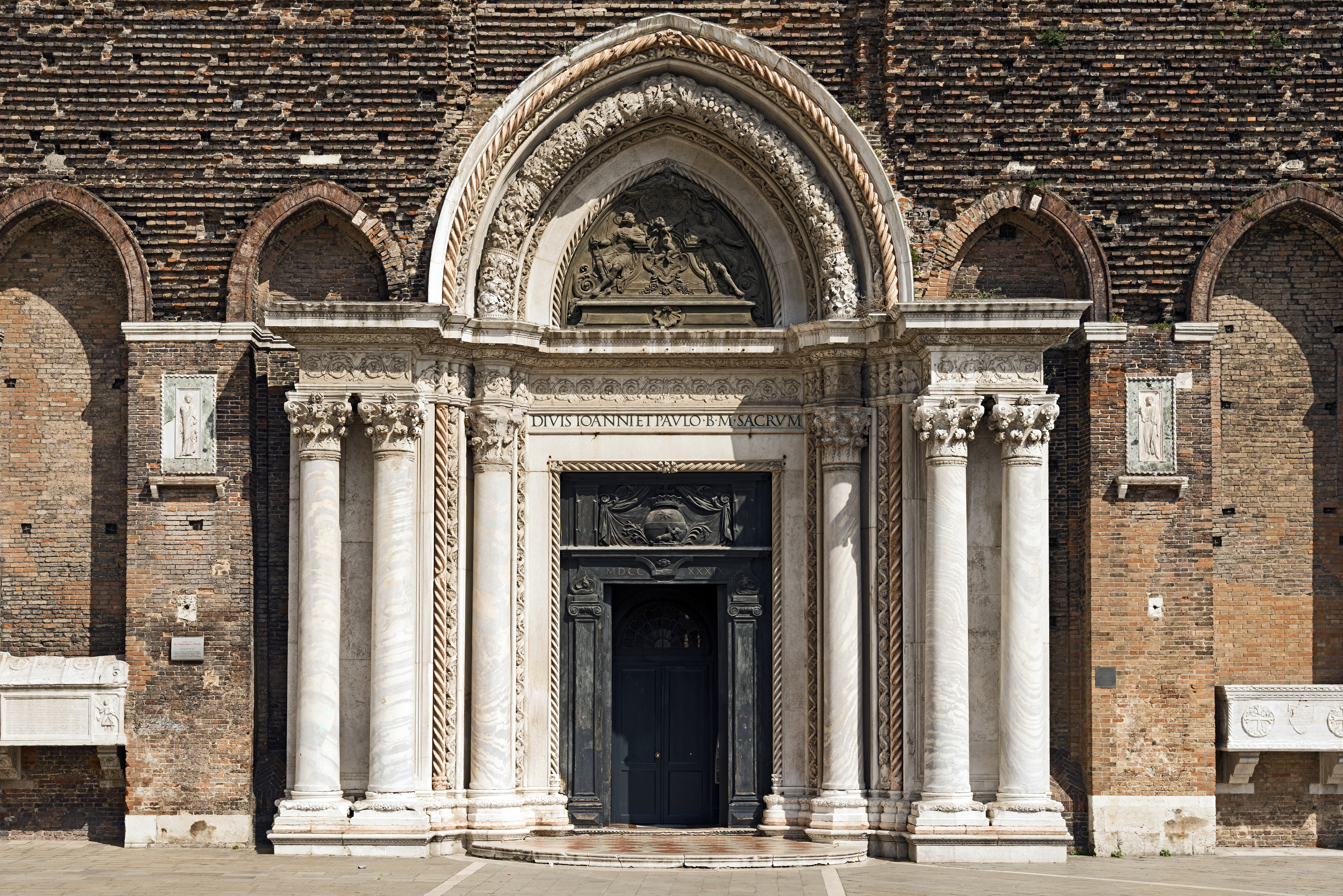 Santi Giovanni e Paolo, Venice - The large porch, decorated with six marble columns made in 1459. The authors are Bartolomeo Bon to the capitals, Domenico Fiorentino for the frieze and Luce master to the top. The tympanum of the portal date of 1464, the bas-relief in bronze on the inside is of 1739.